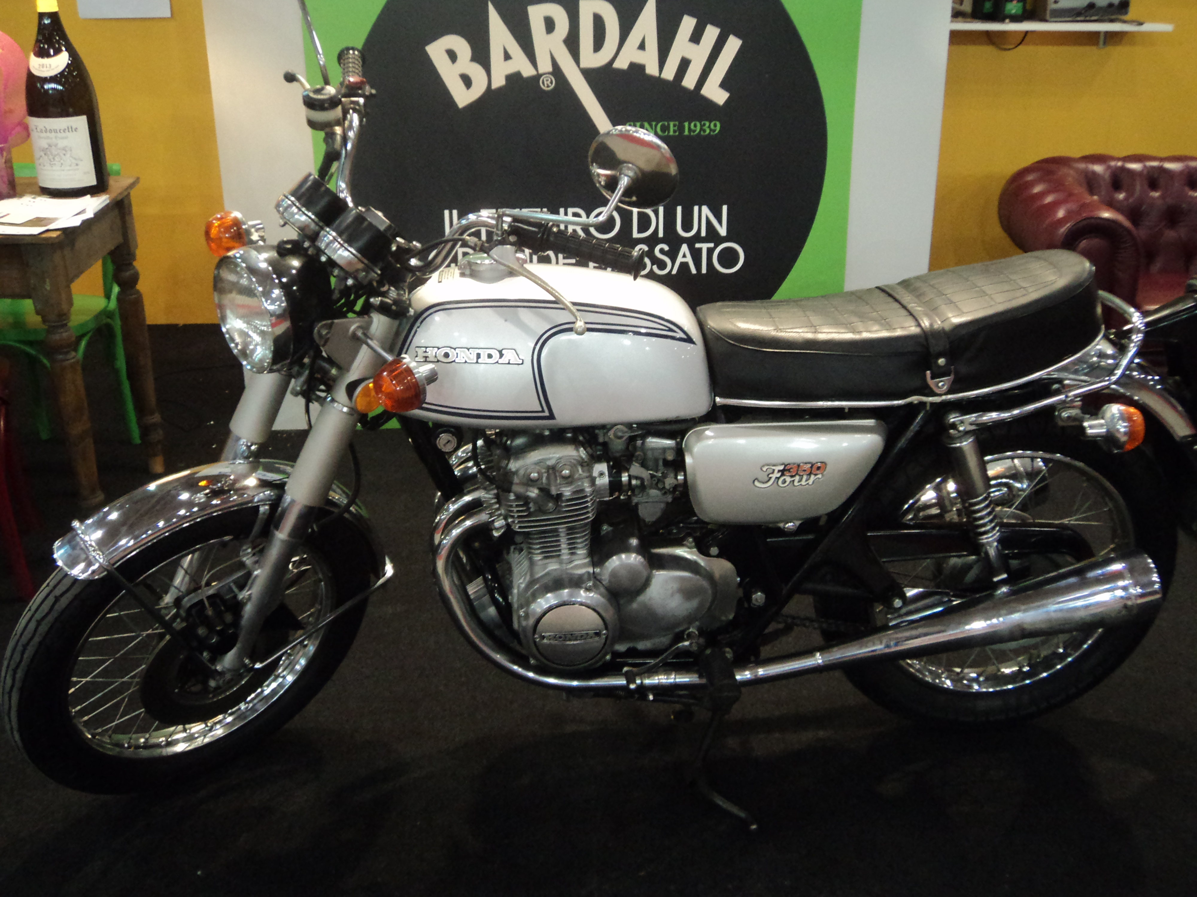 Honda CB350F@Motodays 2017